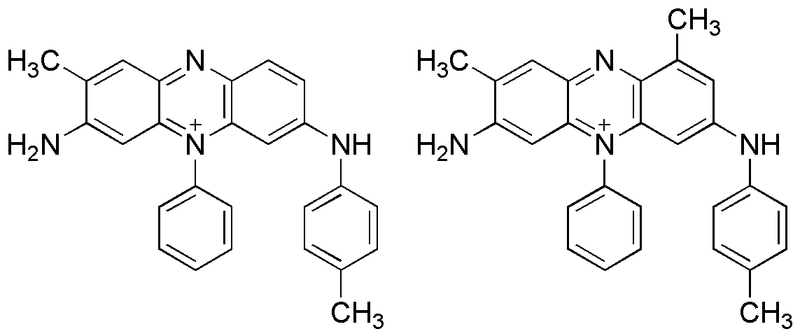 Chemical structure of mauveines A and B.